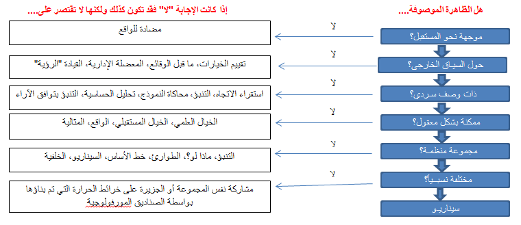 مخطط إنسيابي لتصنيف الظاهرة كسيناريو في التقليد المنطقي البديهي